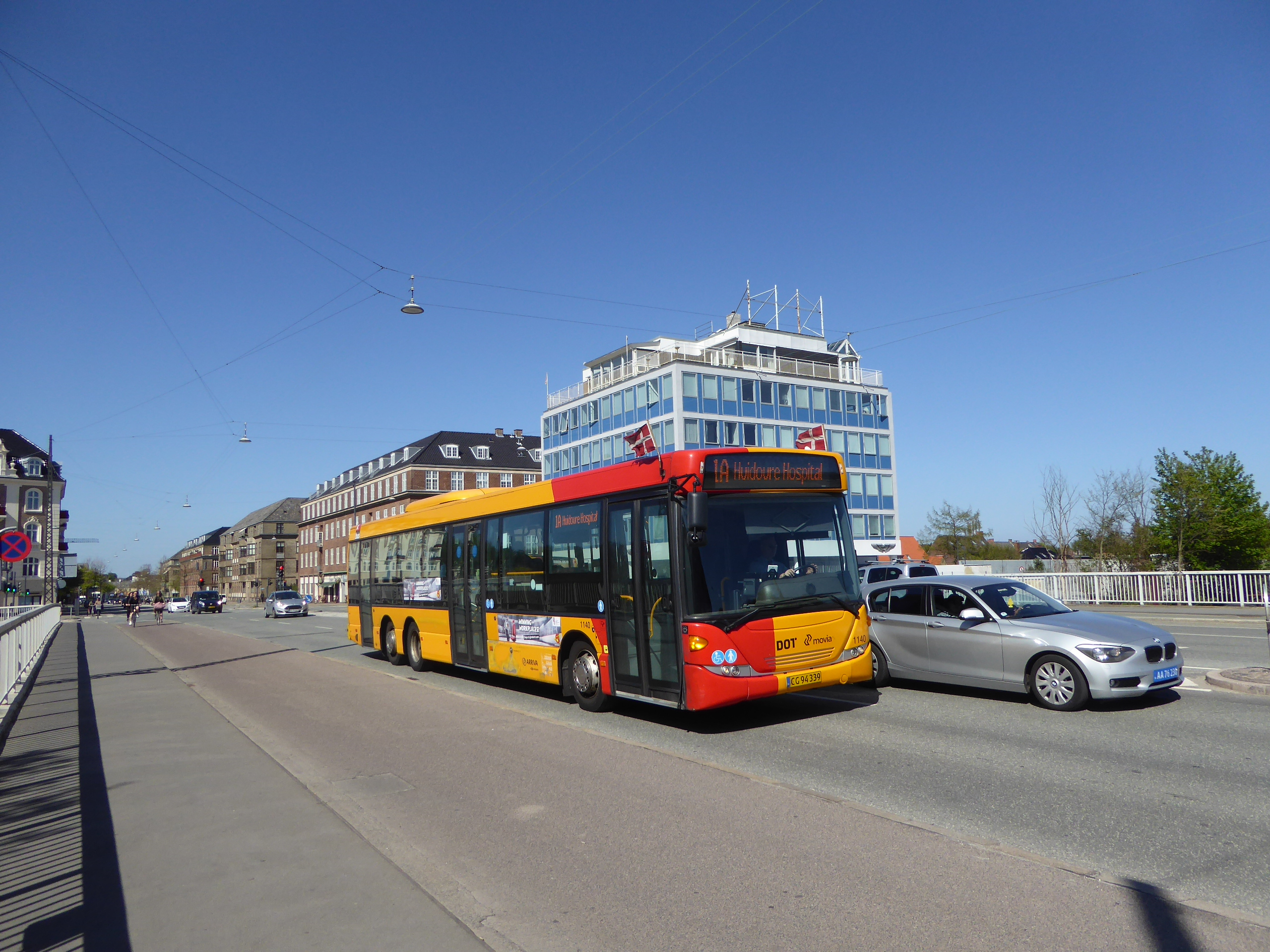 Movia bus line 1A on Svanemøllebroen at Svanemøllen Station in Østerbro in Copenhagen. The flags marks the liberation of Denmark after the World War II at 5 May 1945.